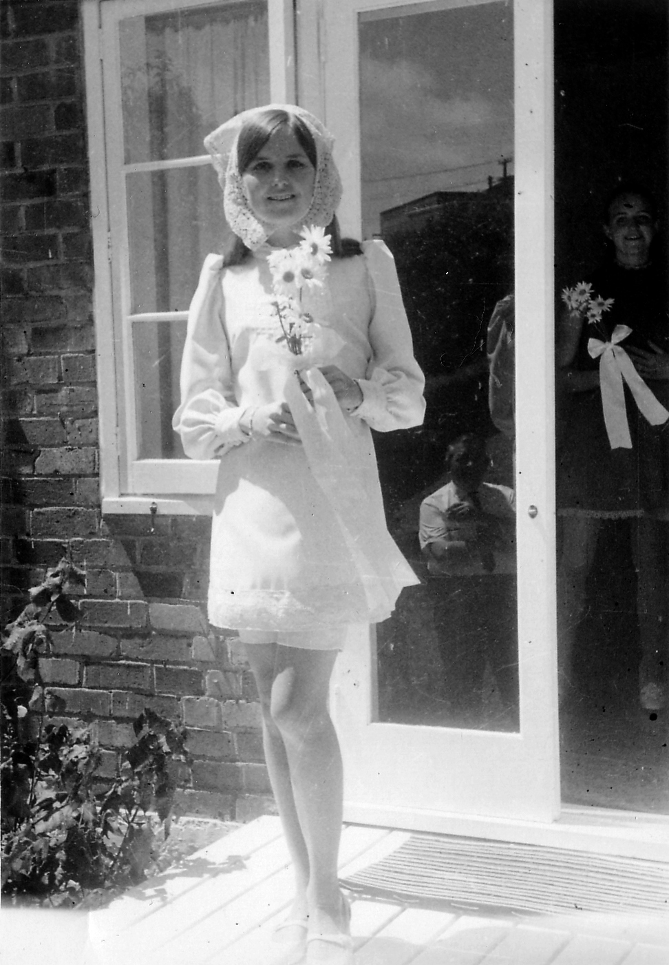 Bride, 1968. "Here is my mother on her wedding day in 1968. I love her mini skirt wedding dress but it caused her some embarrassment on the day. This photo is at my grandmother's house in One Tree Hill, Auckland."